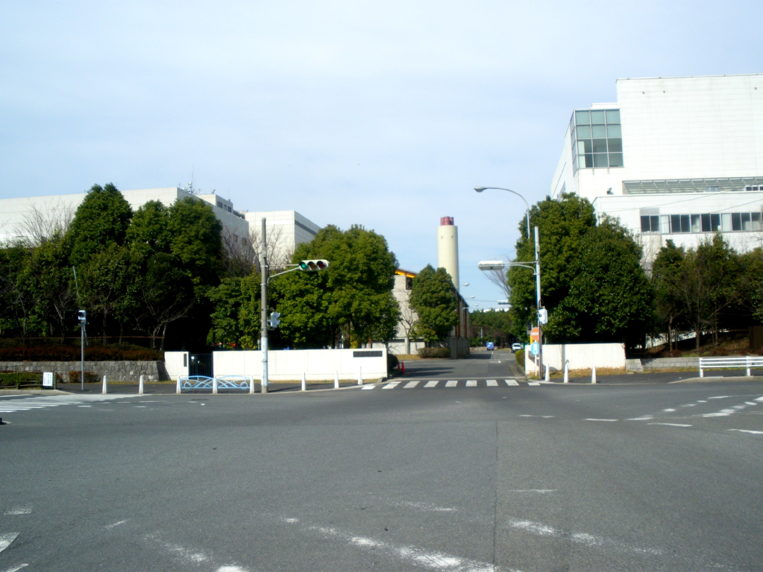 Ota Garbage and Swege Plant